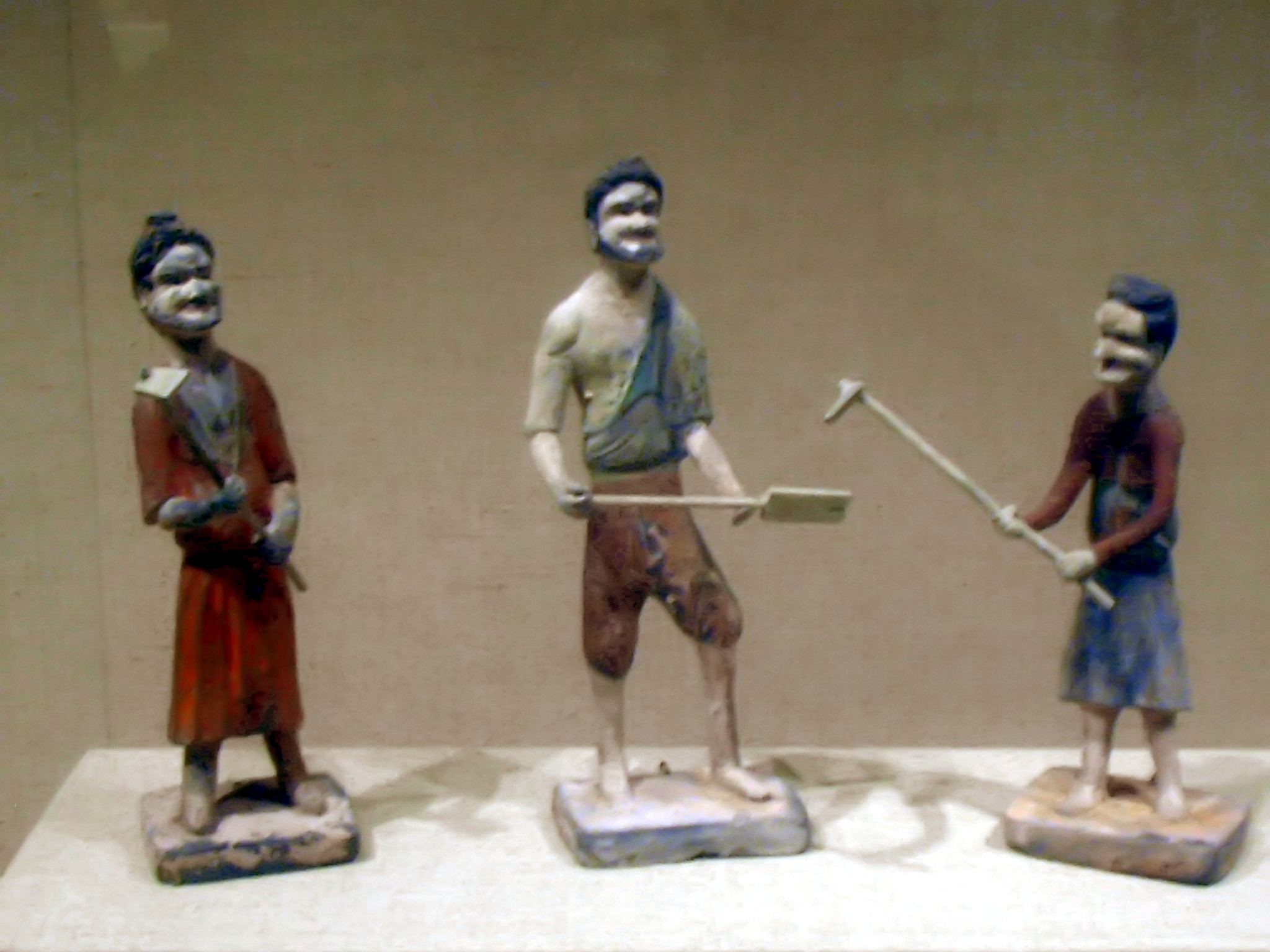 Chinese figurines of three men, one holding a shovel and the others holding hoes, made of earthenware with pigment, from the Tang Dynasty (618–907), dated to the 7th century.